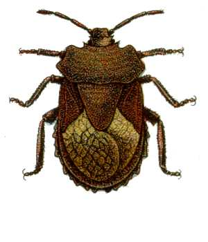 Cucurbit shield bug, pumpkin bug. Megymenum affine (Hemiptera: Dinidoridae)